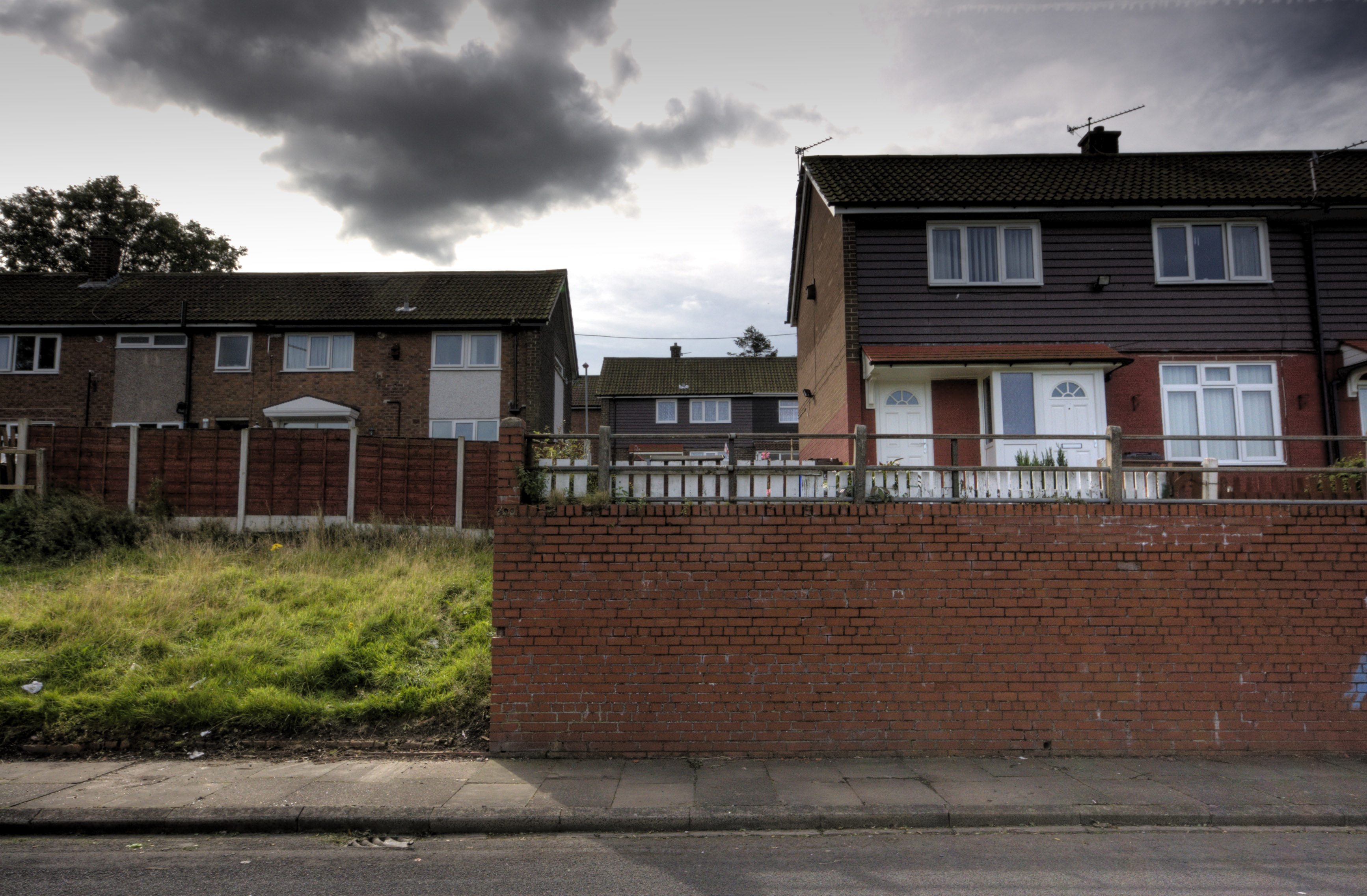 The empty space where 16 Wardle Brook Avenue, Mottram in Longdendale once stood. This property was demolished following the infamous Moors murders case. Number 14 is the house on the right.